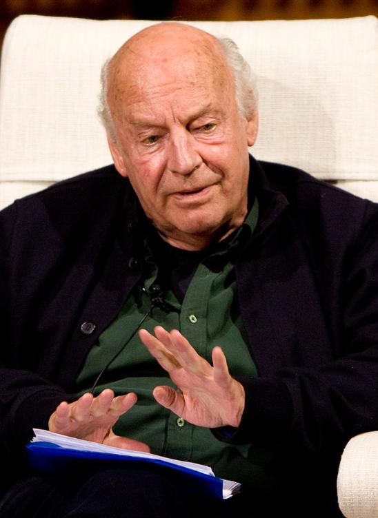 Eduardo Galeano in 2012, at University of Deusto, Literaktum.